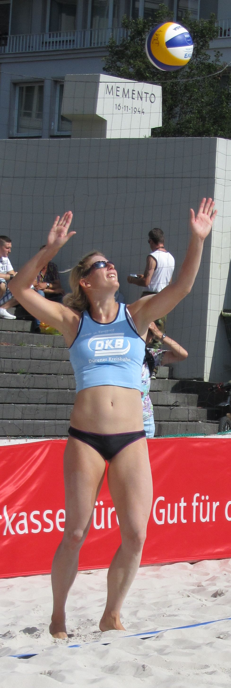 the German beach volleyball player Geeske Banck at the DKB Beach Cup 2011 in Düren, Germany